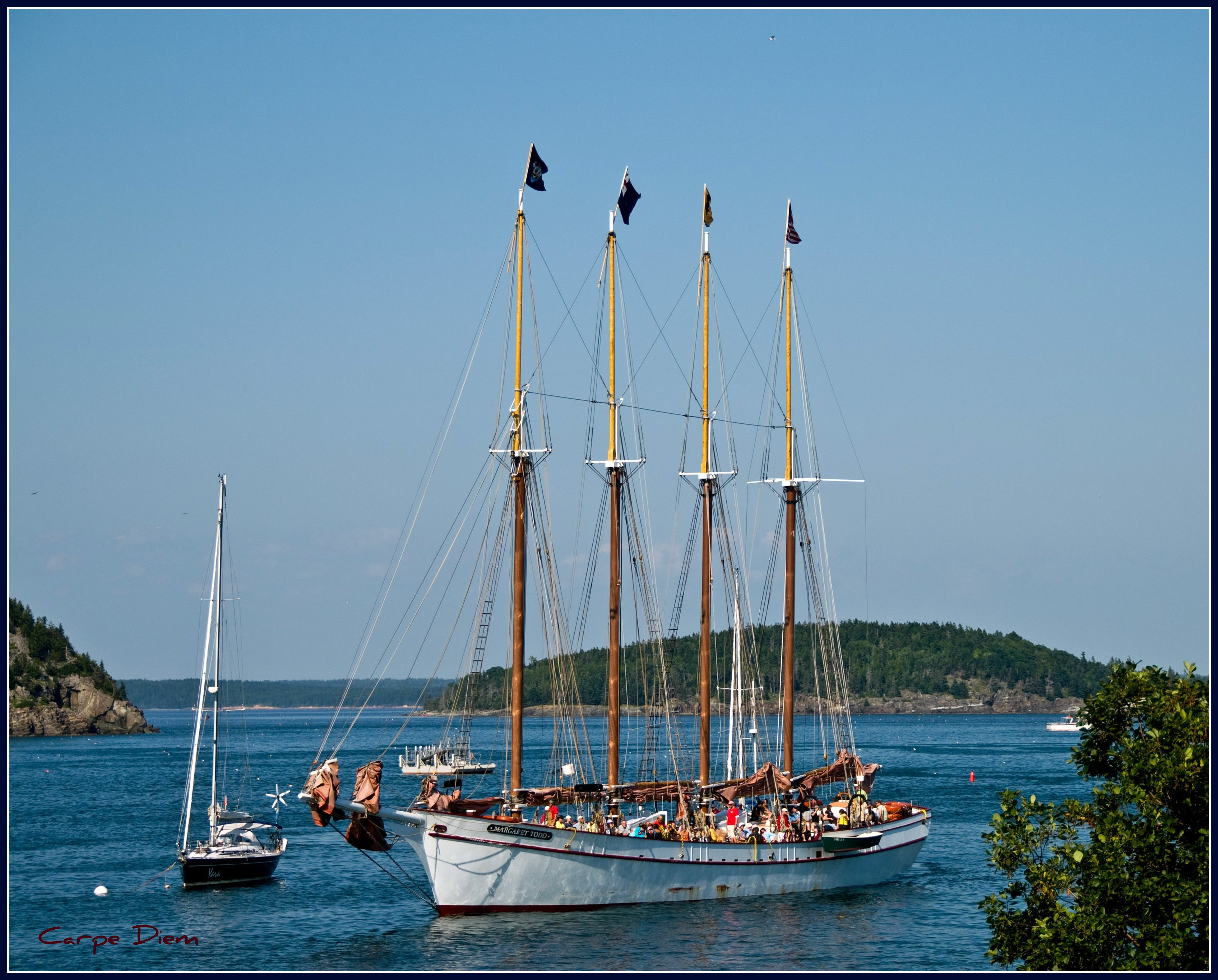 Bar Harbor, Maine. The four-masted schooner Margaret Todd sails three times a day from the Bar Harbor Inn Pier for a cruise around the islands of Frenchman's Bay. check out